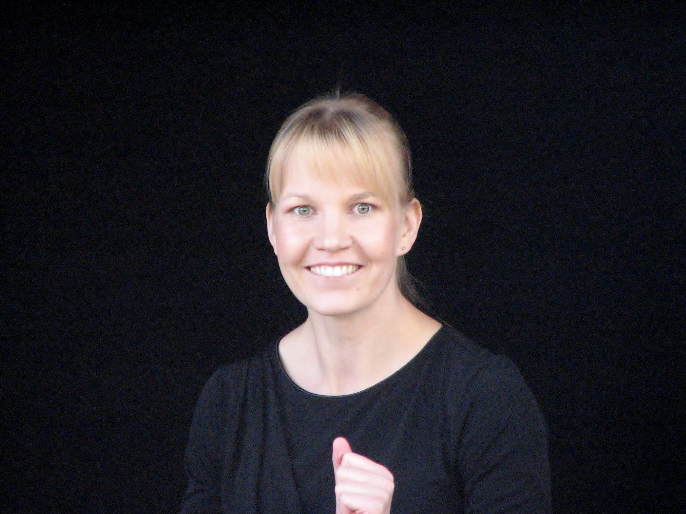 Estonian actress Laura Nõlvak performing in Bastion garden